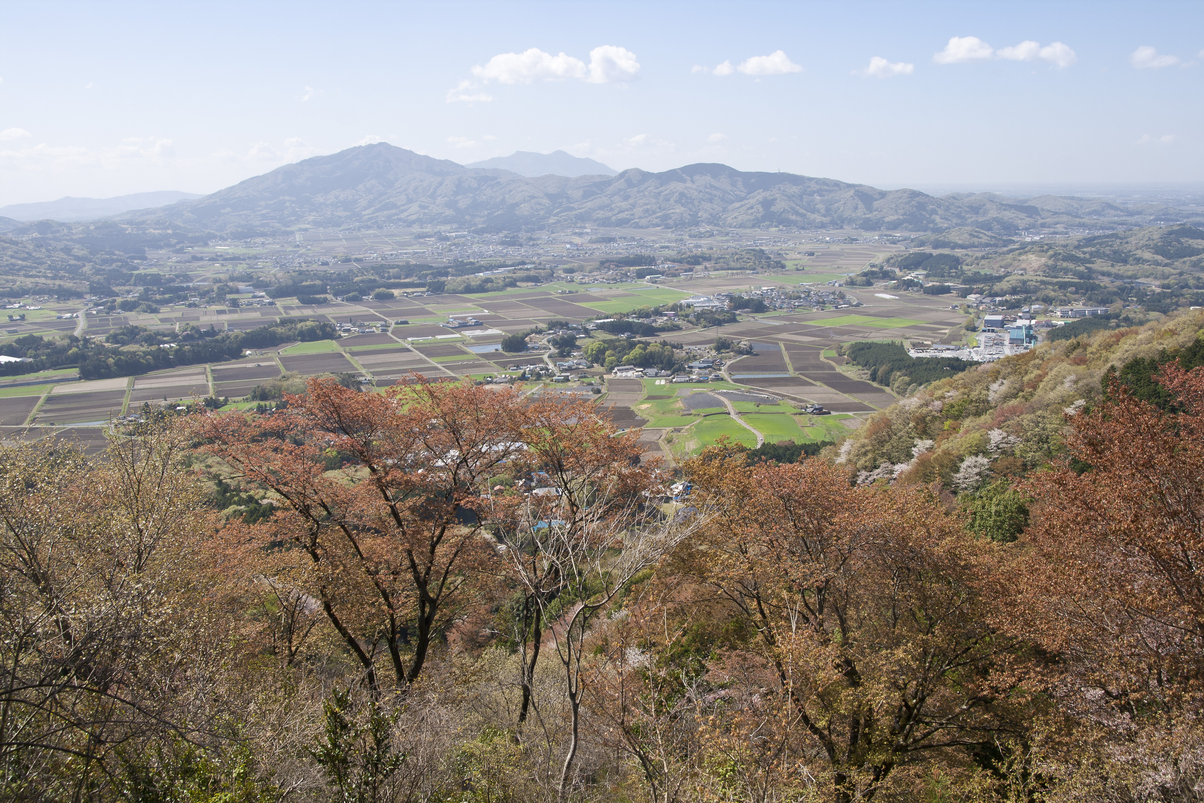 Iwase Basin (岩瀬盆地 いわせぼんち Iwase-bonchi) seen from Mount Takamine, Sakuragawa City, Ibaraki Pref., Japan.